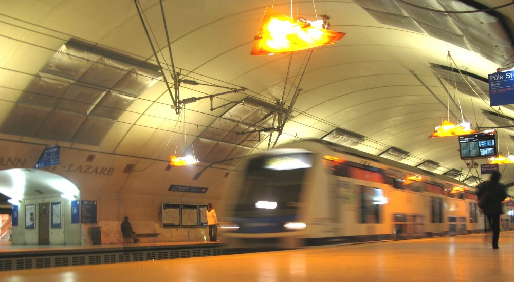 People running to get in the RER E at Haussmann station. (author : Metropolitan)